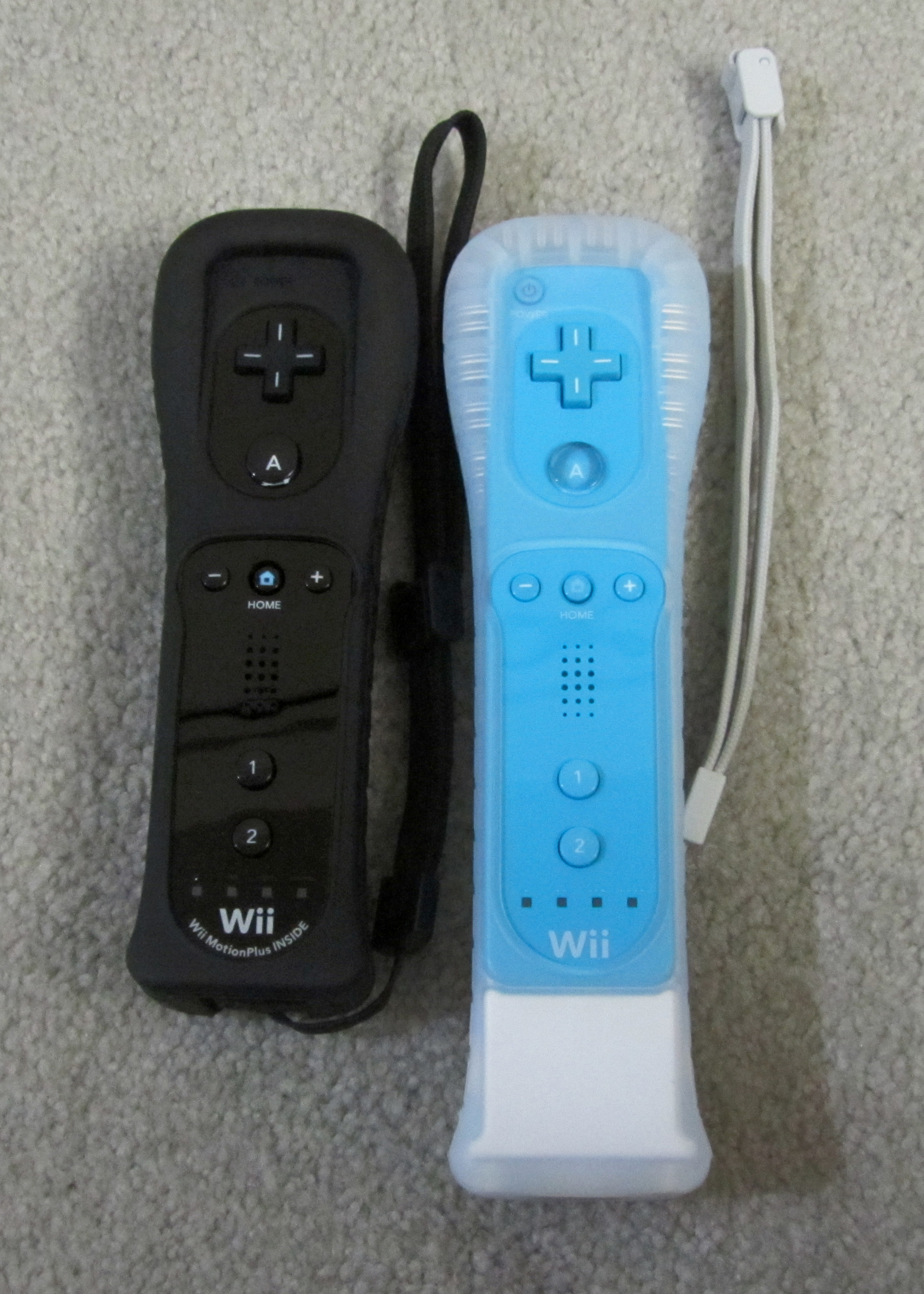 A newly unboxed black Wii Remote Plus that was bundled with Wii Play: Motion placed next to a blue standard Wii Remote for comparison